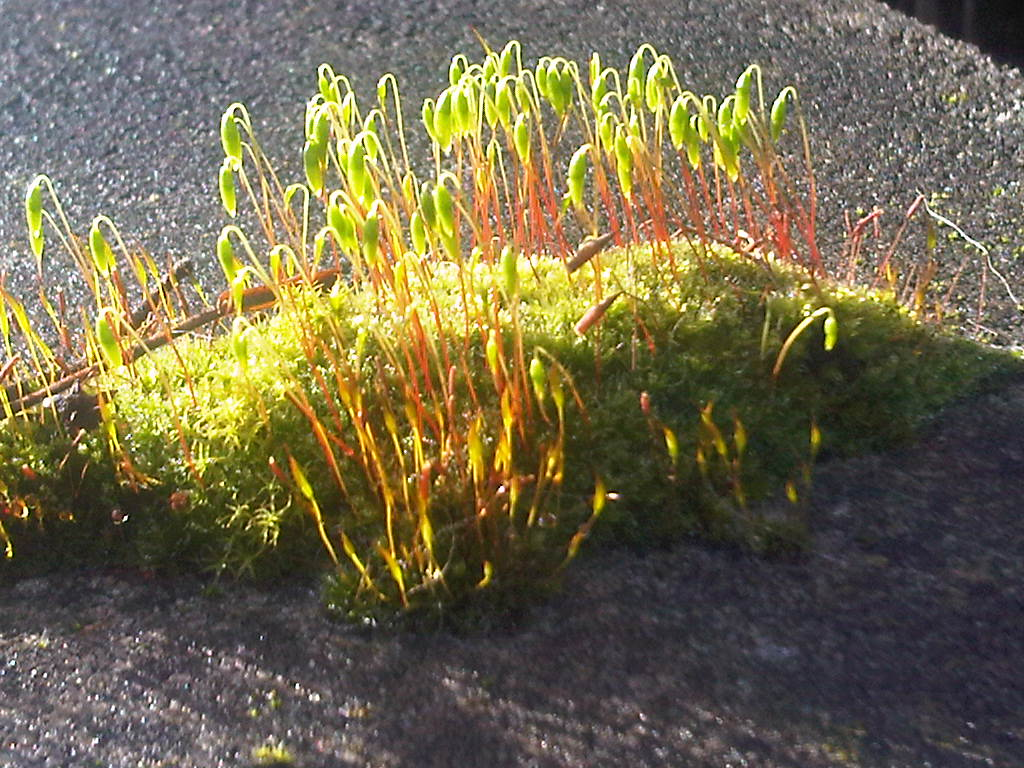 Tortula muralis in London, England.